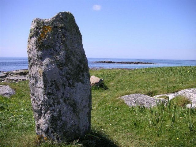 The Pollachar standing stone, South Uist